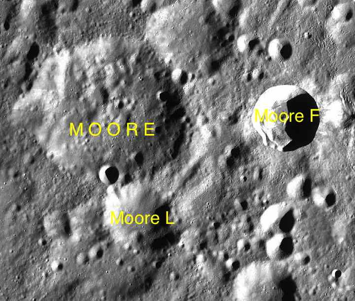 Part of the chart LAC-33 used for the presentation